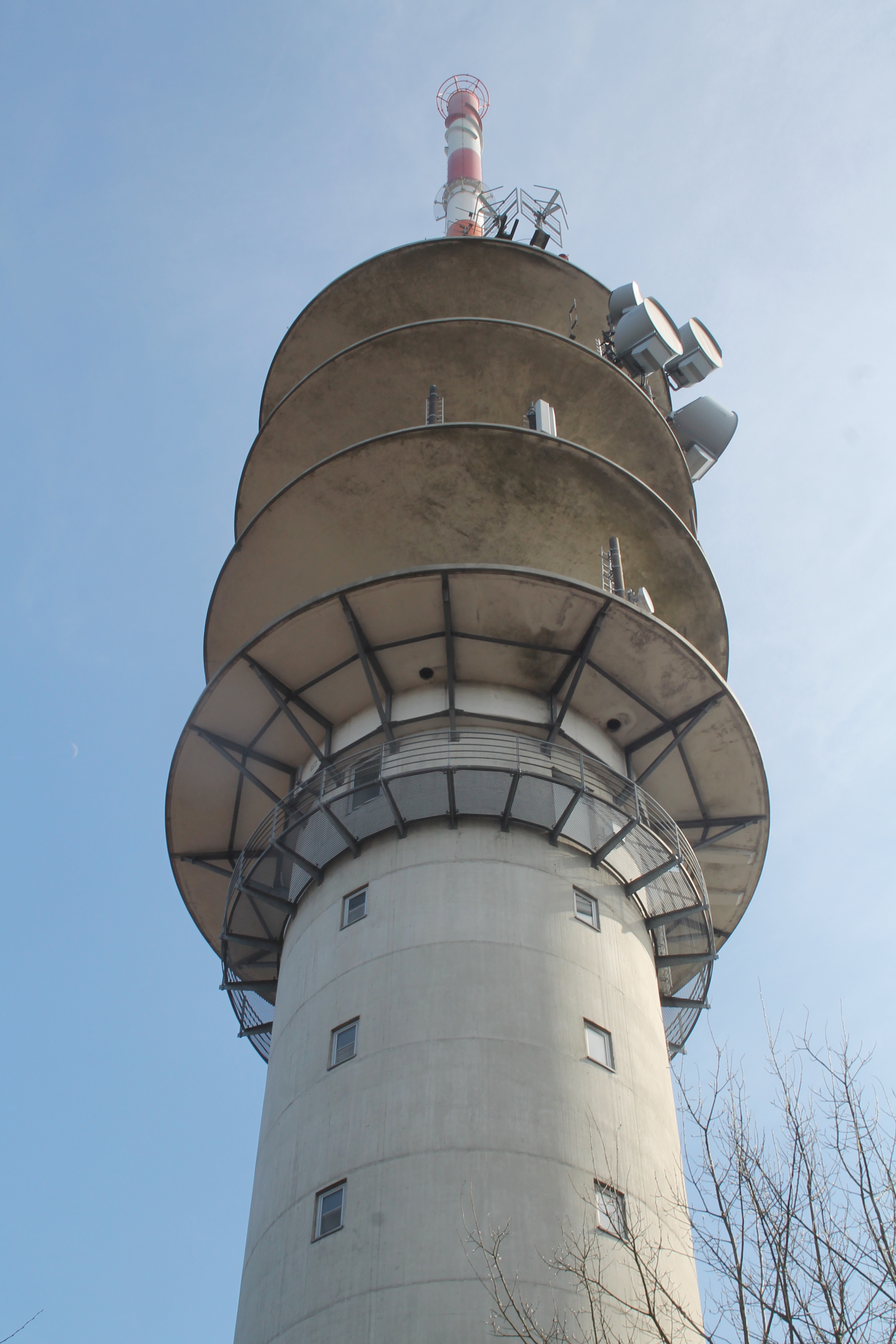 Heidelberg Telecommunication Tower